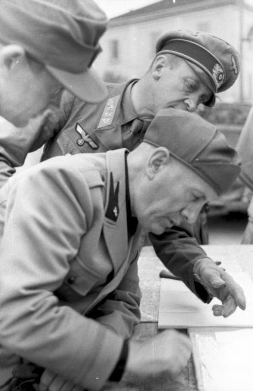 Information added by Wikimedia users.*